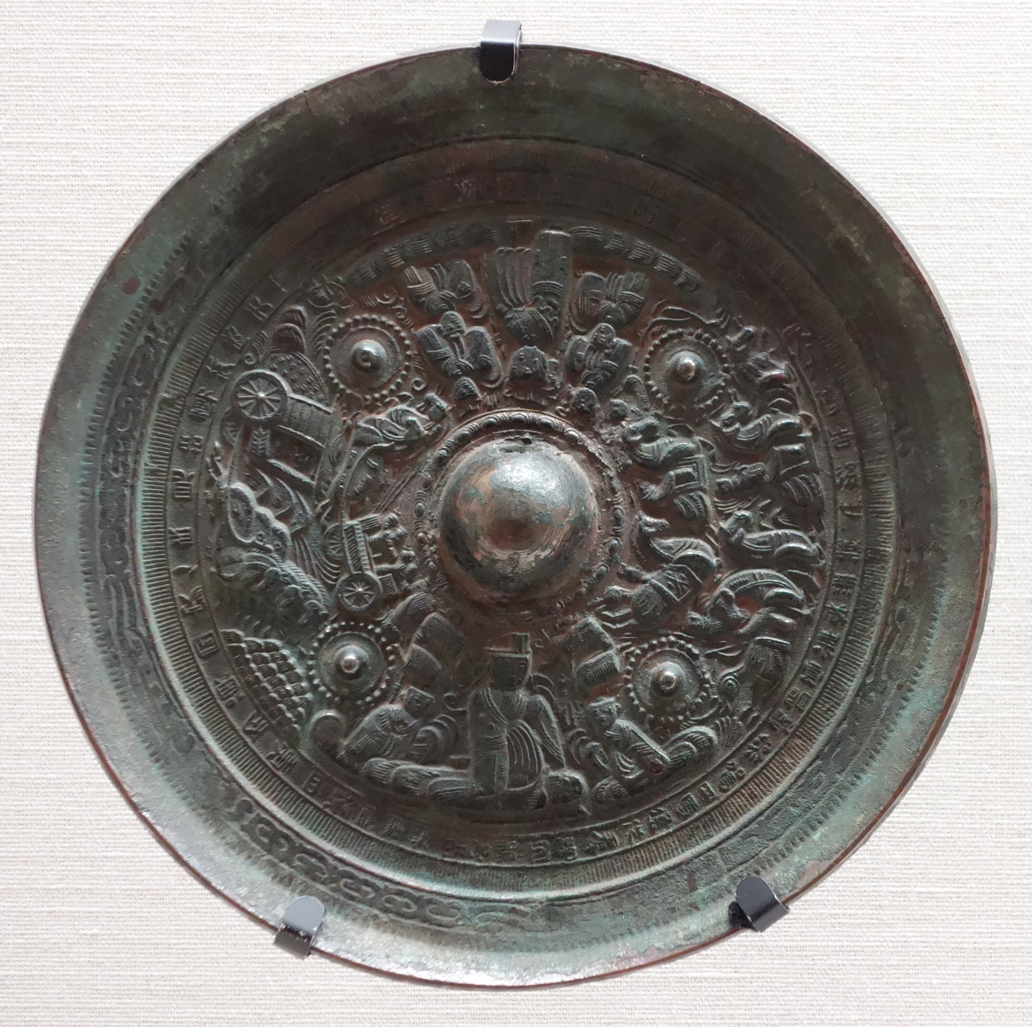 Exhibit in the Tokyo National Museum, Tokyo, Japan. This artwork is old enough so that it is in the public domain.